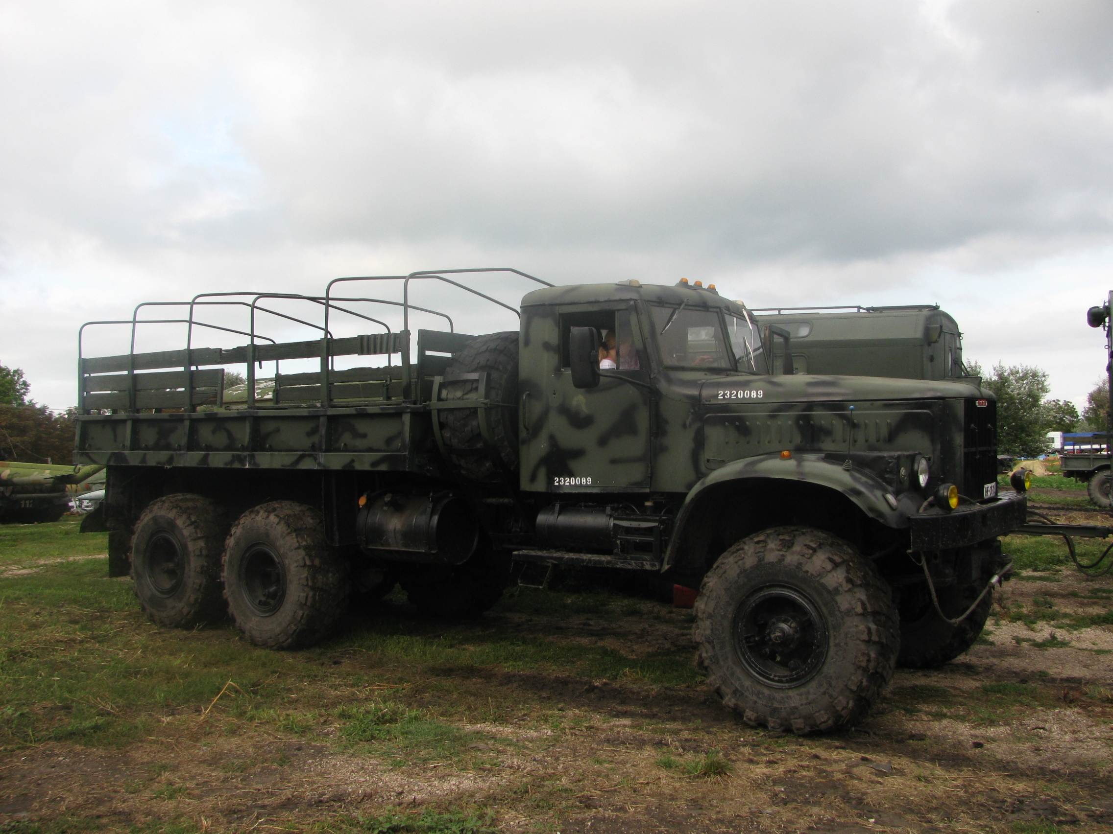 KrAZ 6×6 truck in Zamárdi, Hungary.